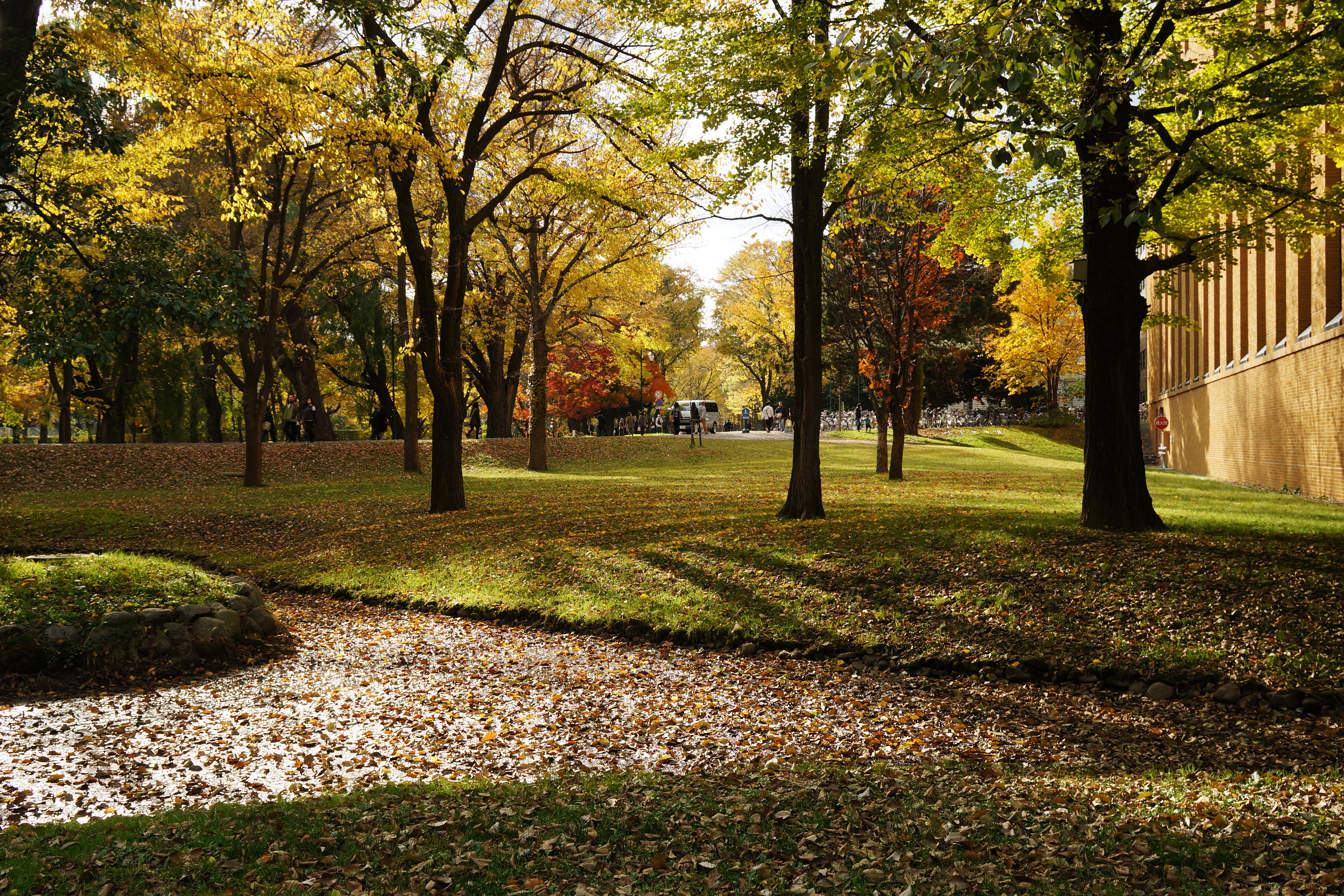 At Hokkaido University in Sapporo, Hokkaido prefecture, Japan.